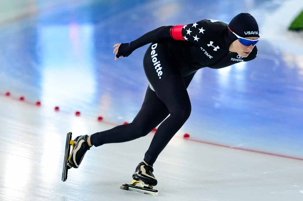 US skater